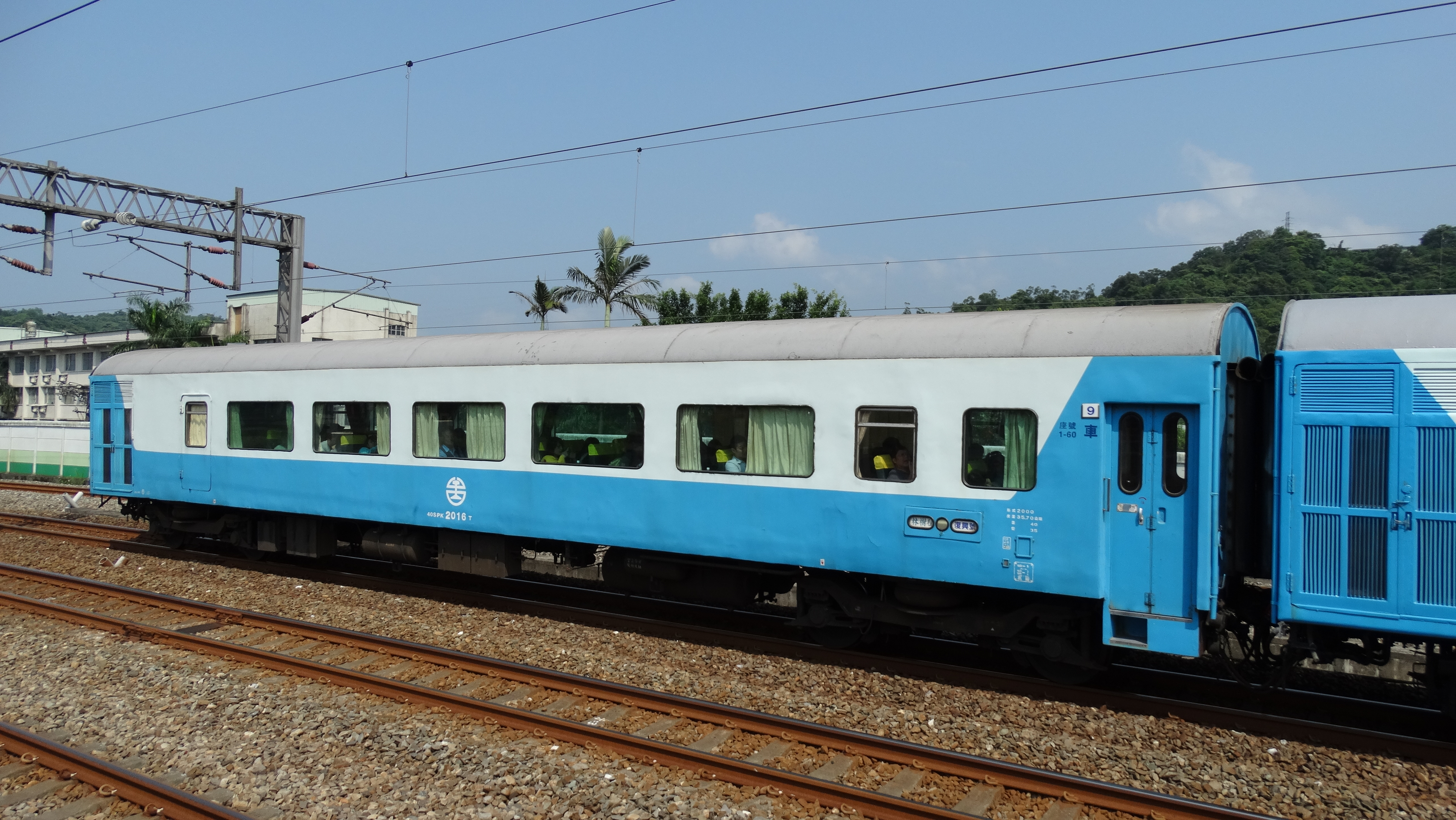 40SPK2000 type of TRA Fuxing Passanger Car, 40SPK2016T.